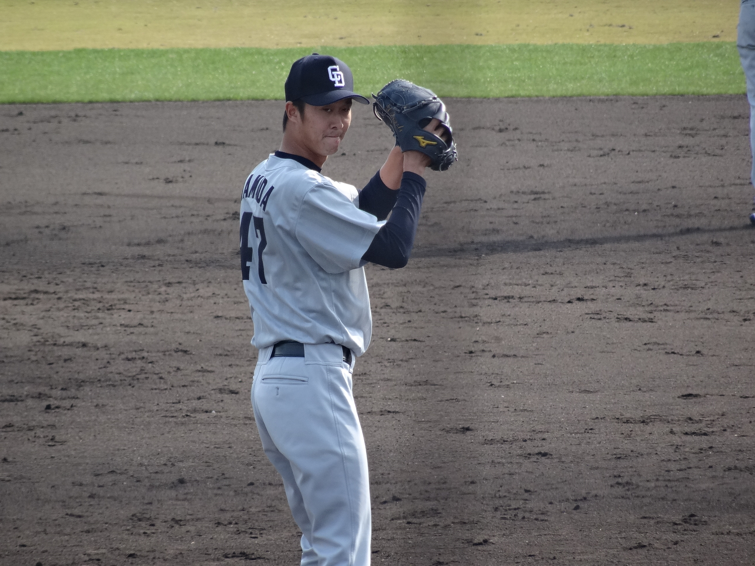 Tomohiro Hamada, pitcher of the Chunichi Dragons, at Hanshin Naruohama Baseball Ground.